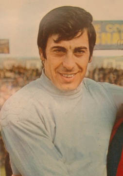 Argentine goalkeeper Agustín M. Cejas in 1970, during a match against San Lorenzo de Almagro.